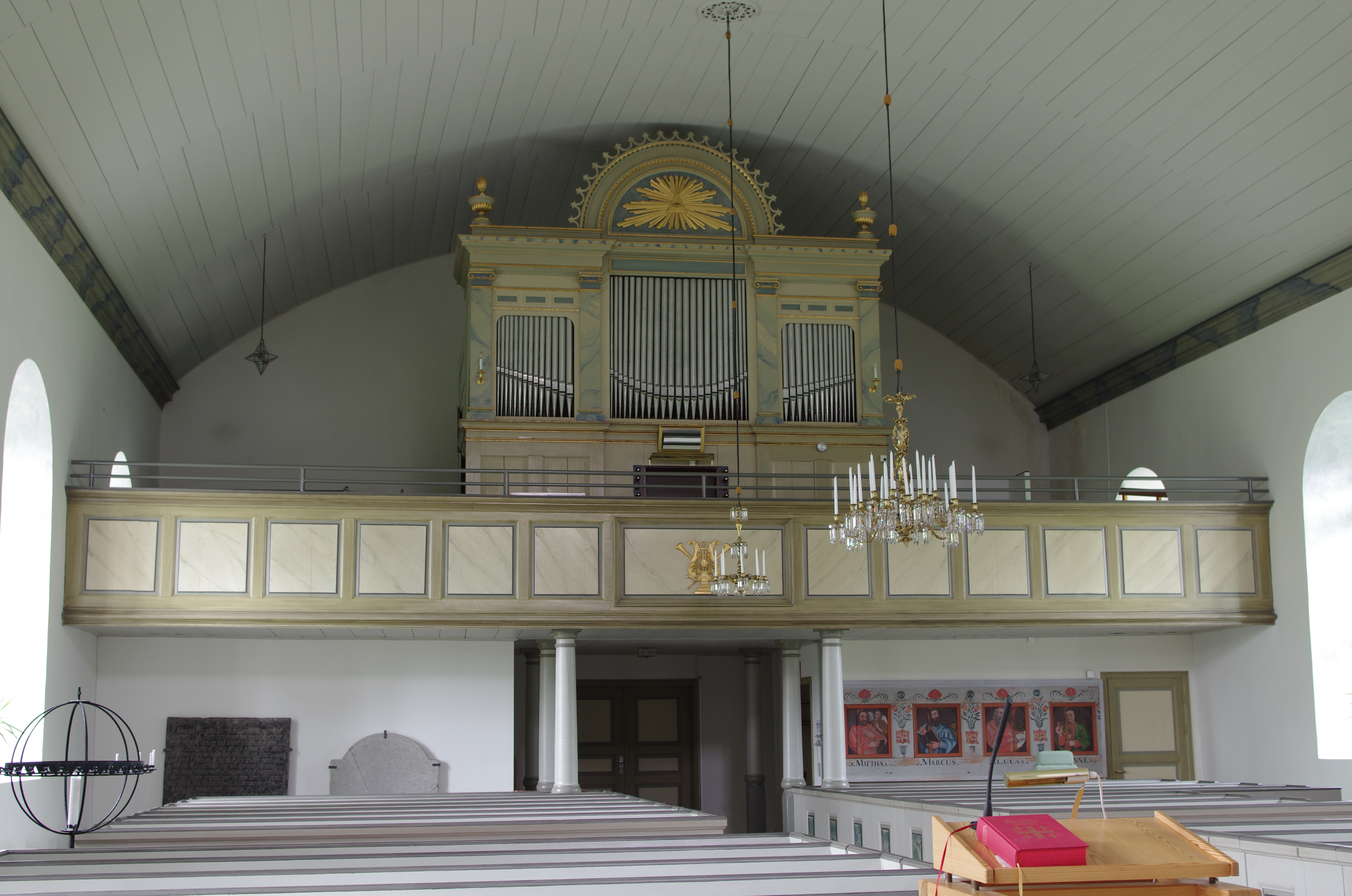 Fröjered church in Västergötland, Sweden.